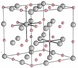 metallic bond